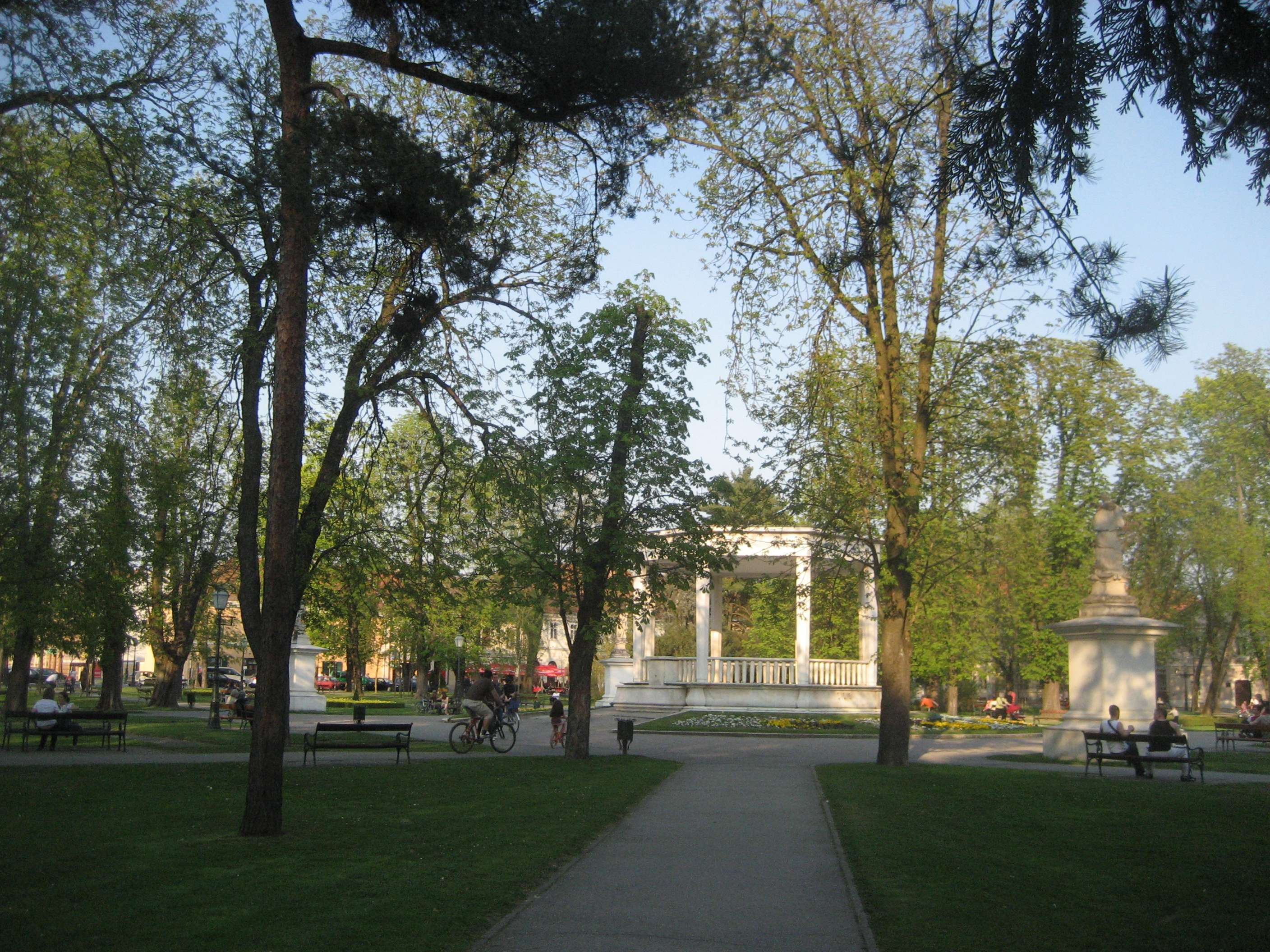 Park Bjelovar, Croatia